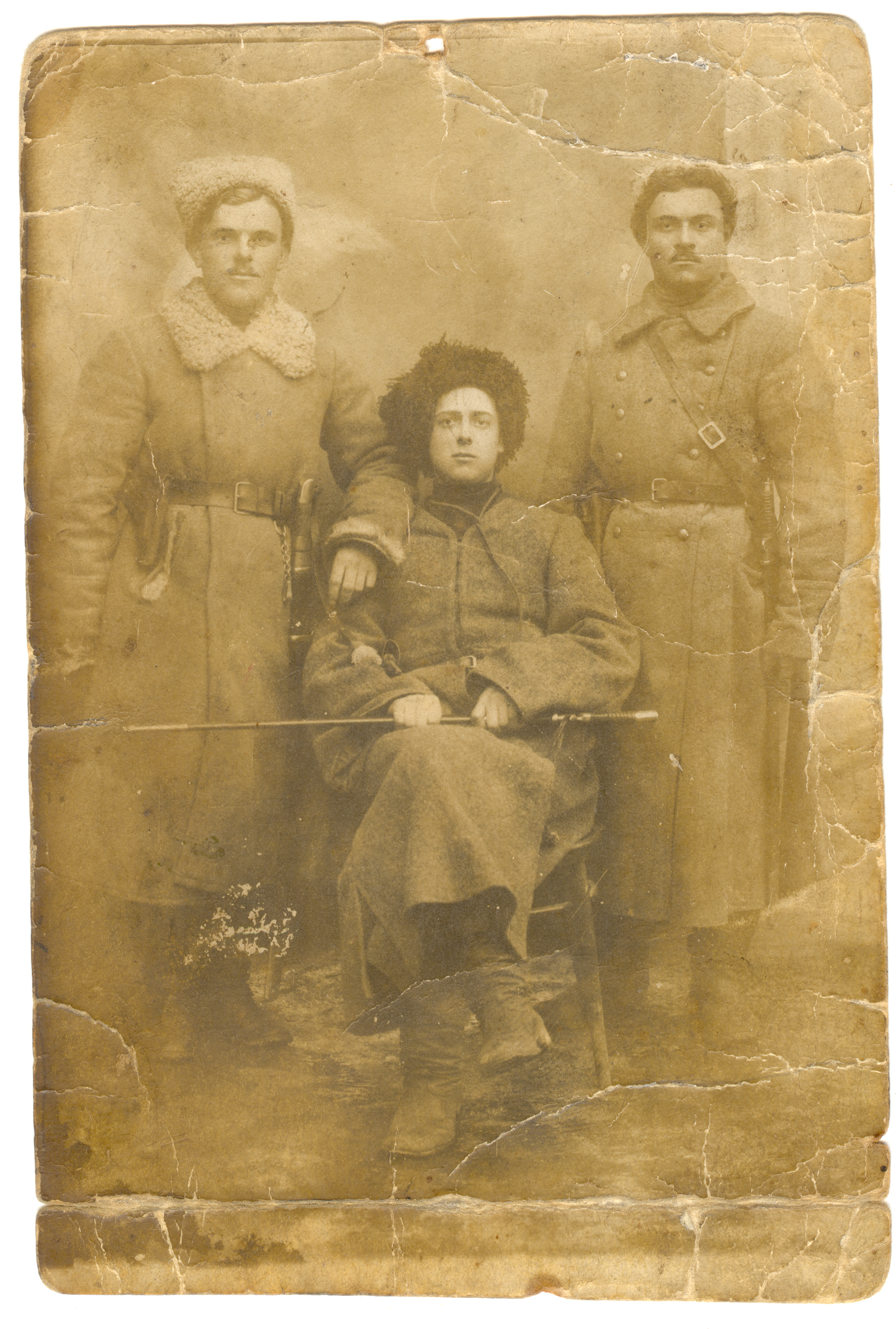 Ukrainian revolutionary - Danilo Terpilo (1886—1919)